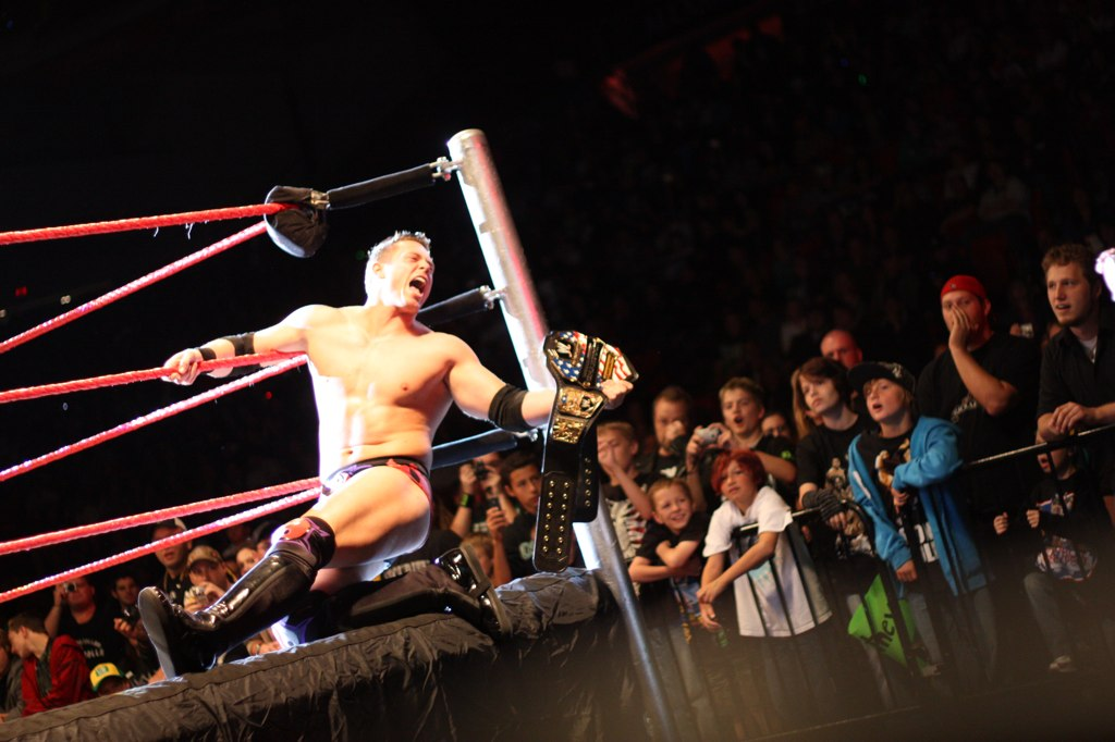 The Miz poses with the United States championship title, which he stole from champion Kofi Kingston on WWE Raw, at a house show in Halifax, Nova Scotia, Canada.